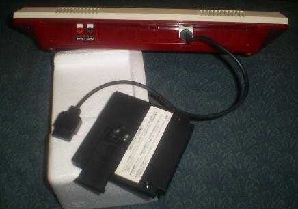 A photograph I took of the back side of the "Family Basic" Keyboard and Cartridge. Items which where manufactured and released by Nintendo with Hudson Soft and Sharp Corporation.